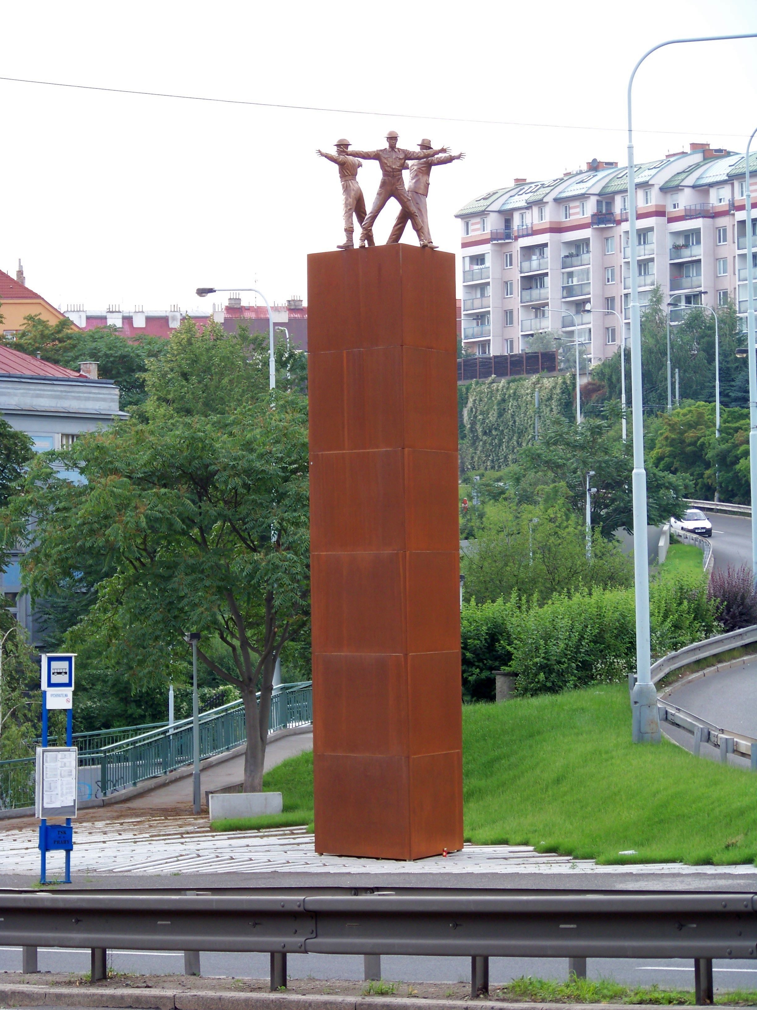 Libeň, Prague, the Czech Republic.